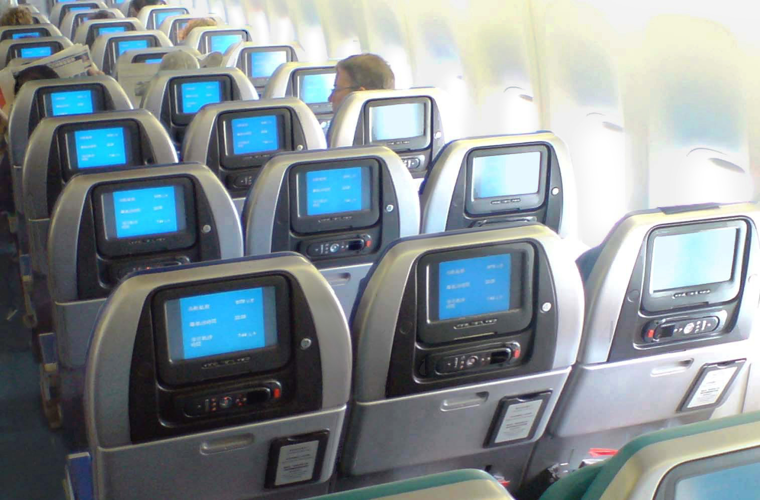 Cathay Pacific clam shell seats (where the back of a seat stays essentially in the same position, even if the person in it reclines their seat). The advantages of clamshells for leg room for the passenger behind were a big feature in Cathay Pacific's advertising of the new seats - though people with very long legs, like the image author, still have some leg room issues in economy class even with clamshell seats...